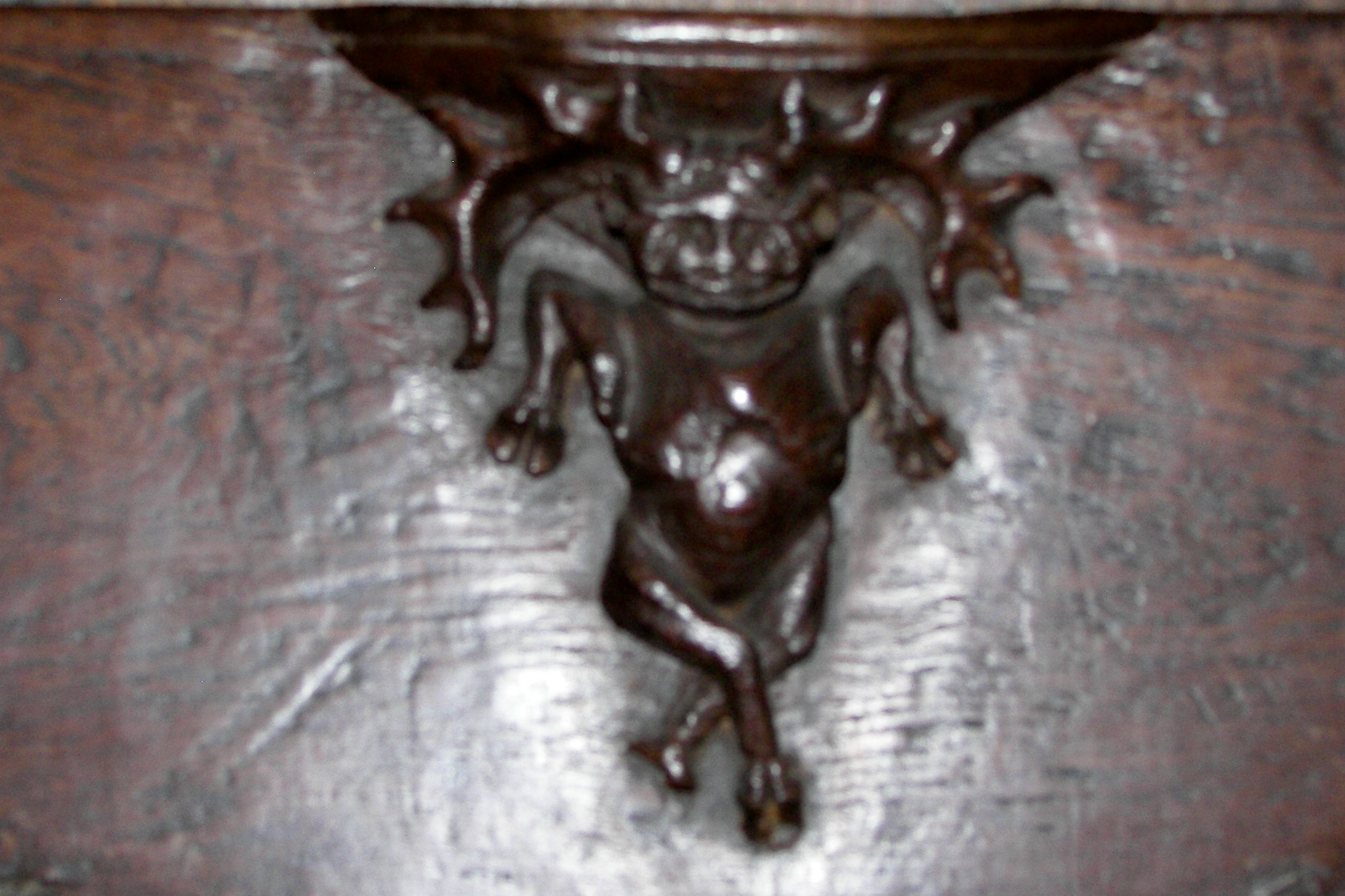 Misericord from Collegial Saint Thiébaut in Thann (68/France) Representation of Gallic god Cernunnos ?